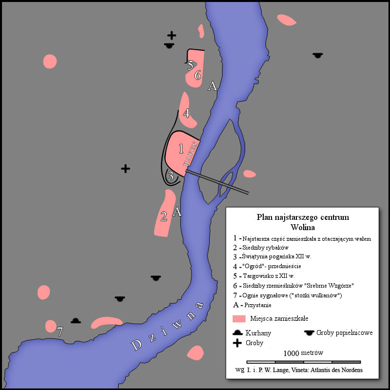 Map of the early urban centre of Wolin.